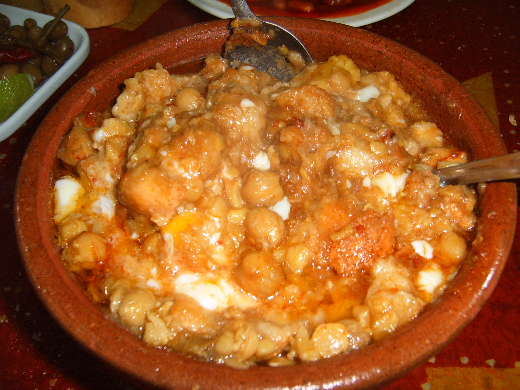 Lablabi ready to be eaten in a Tunis restaurant